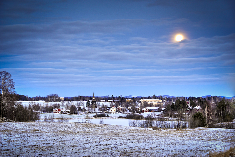 Delsbo - utsikt över Delsbo kyrka med klockstapel.